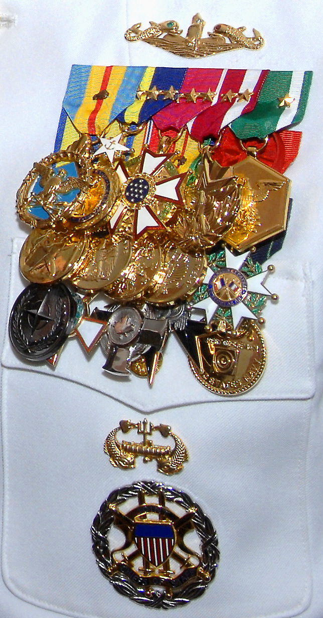 Close-up of medals worn by Admiral Edmund P. Giambastiani.